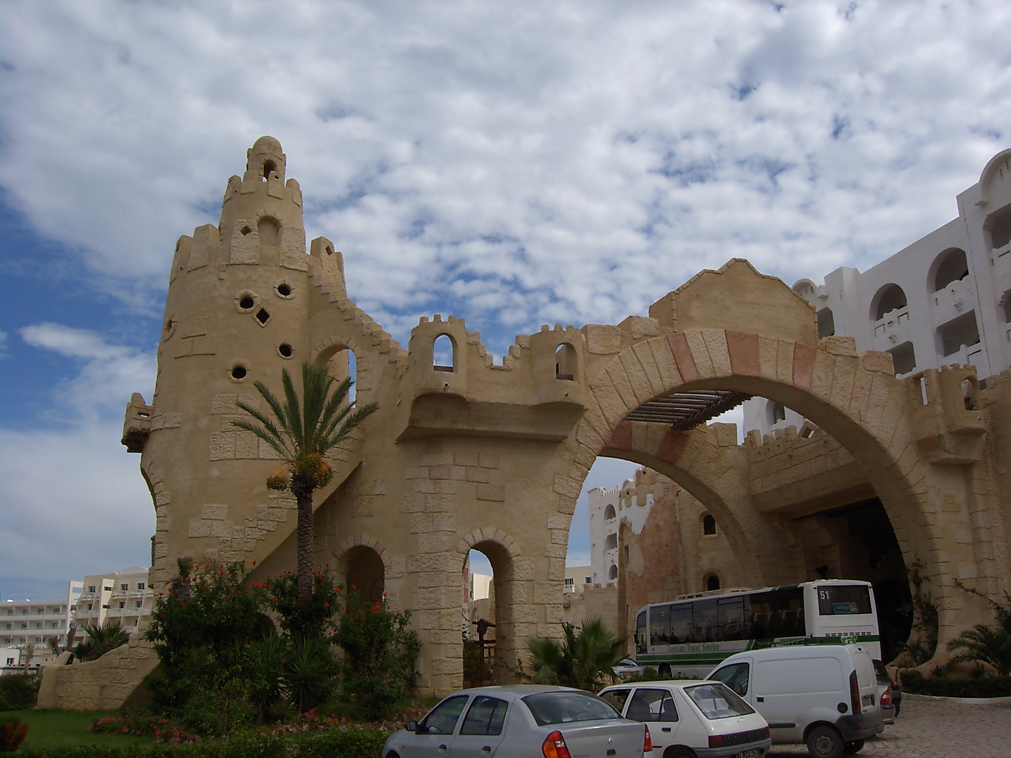 Lella Baya Hotel in Hammamet, Tunisia